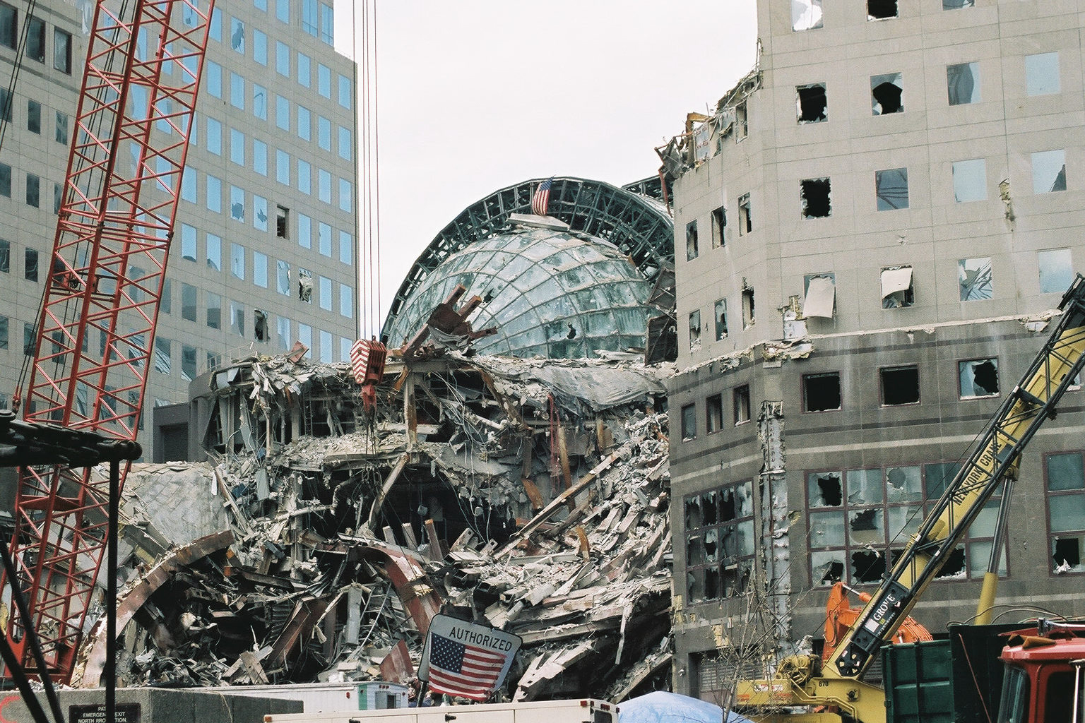 New York, NY, September 27, 2001 -- This waterfront building sustained considerable damage during the collapse of the World Trade Center. Photo by Bri Rodriguez/ FEMA News Photo